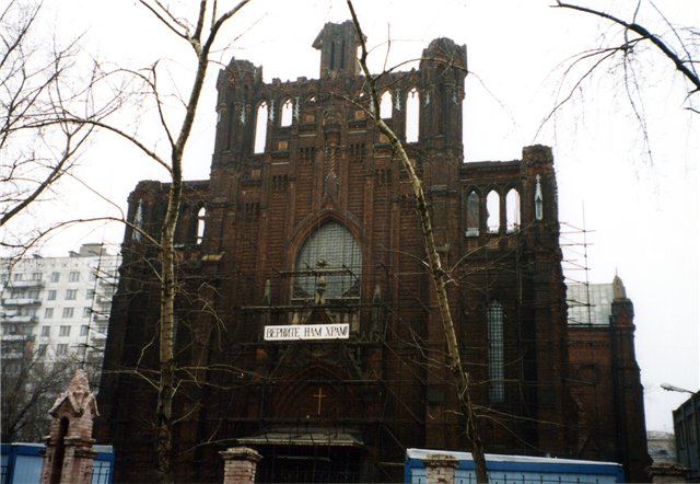 Cathedral of the Immaculate Conception of the Holy Virgin Mary, Moscow. Decay before renovation.